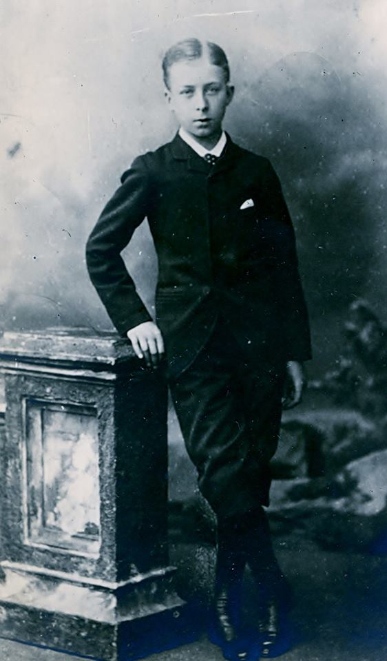 King Albert I of Belgium as a child